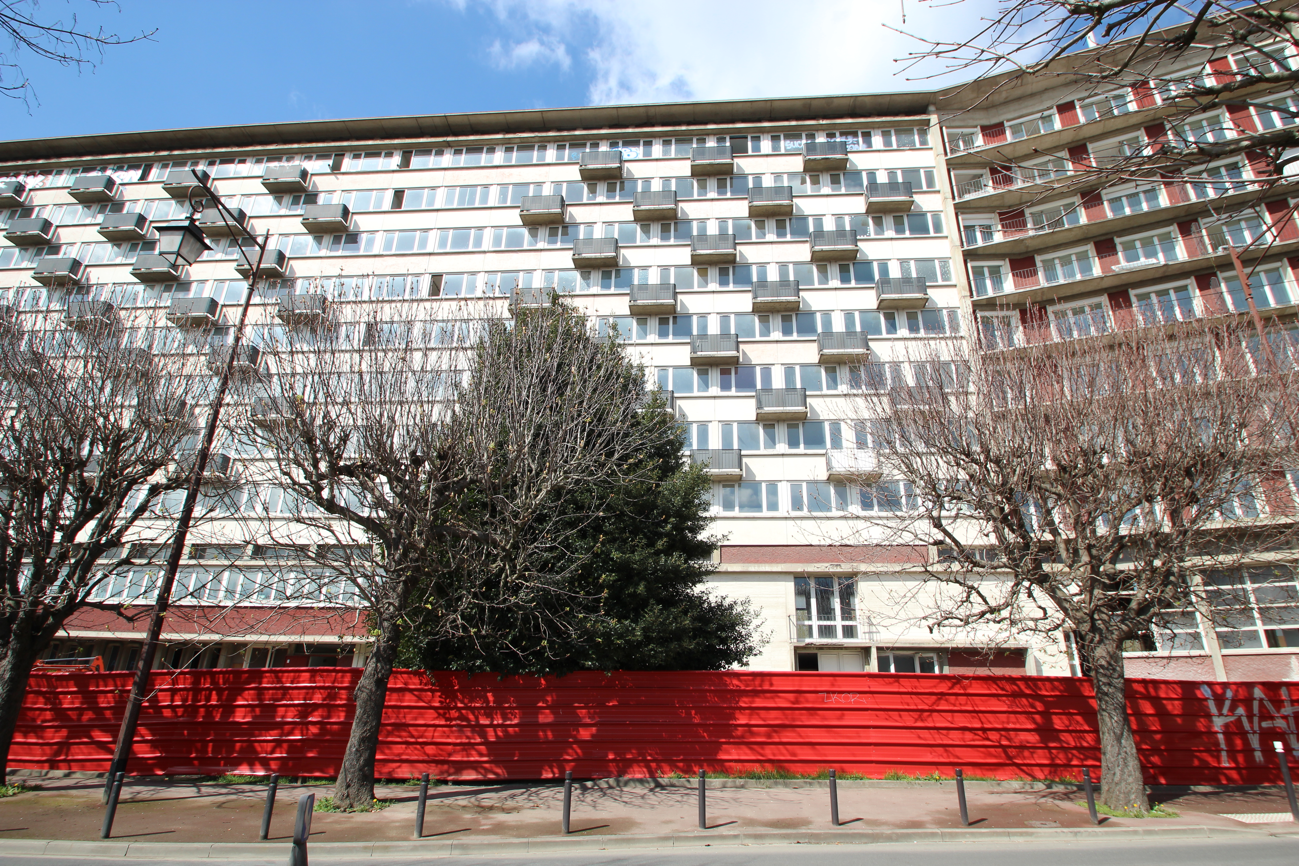 University residence Jean-Zay in Antony, France.